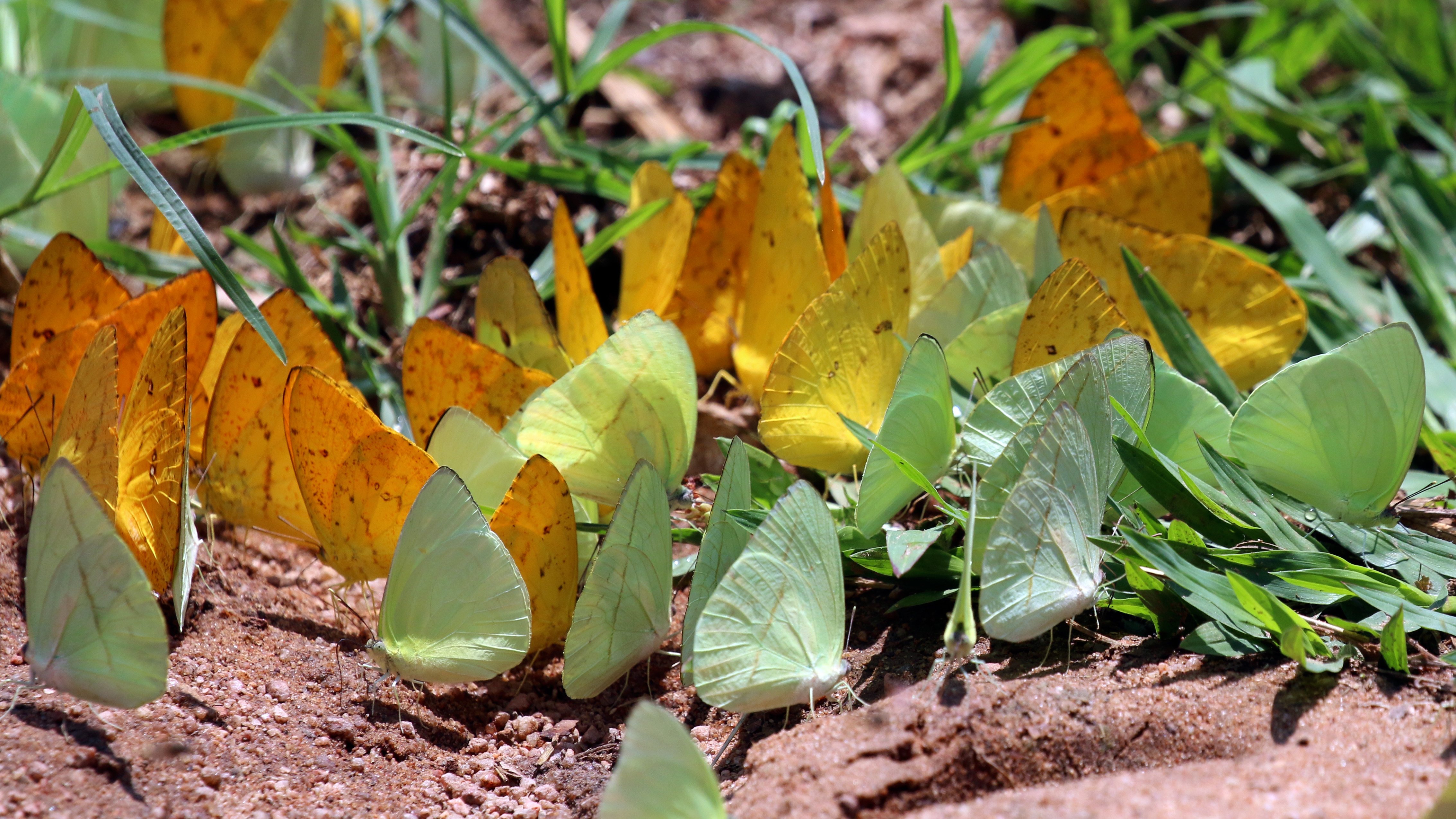 Puddling butterflies, including Stratia sulphur (Aphrissa statira); Straight-line sulphur (Rhabdodryas trite); and Apricot Sulphur (Phoebis argante), Cristalino River, Southern Amazon, Brazil